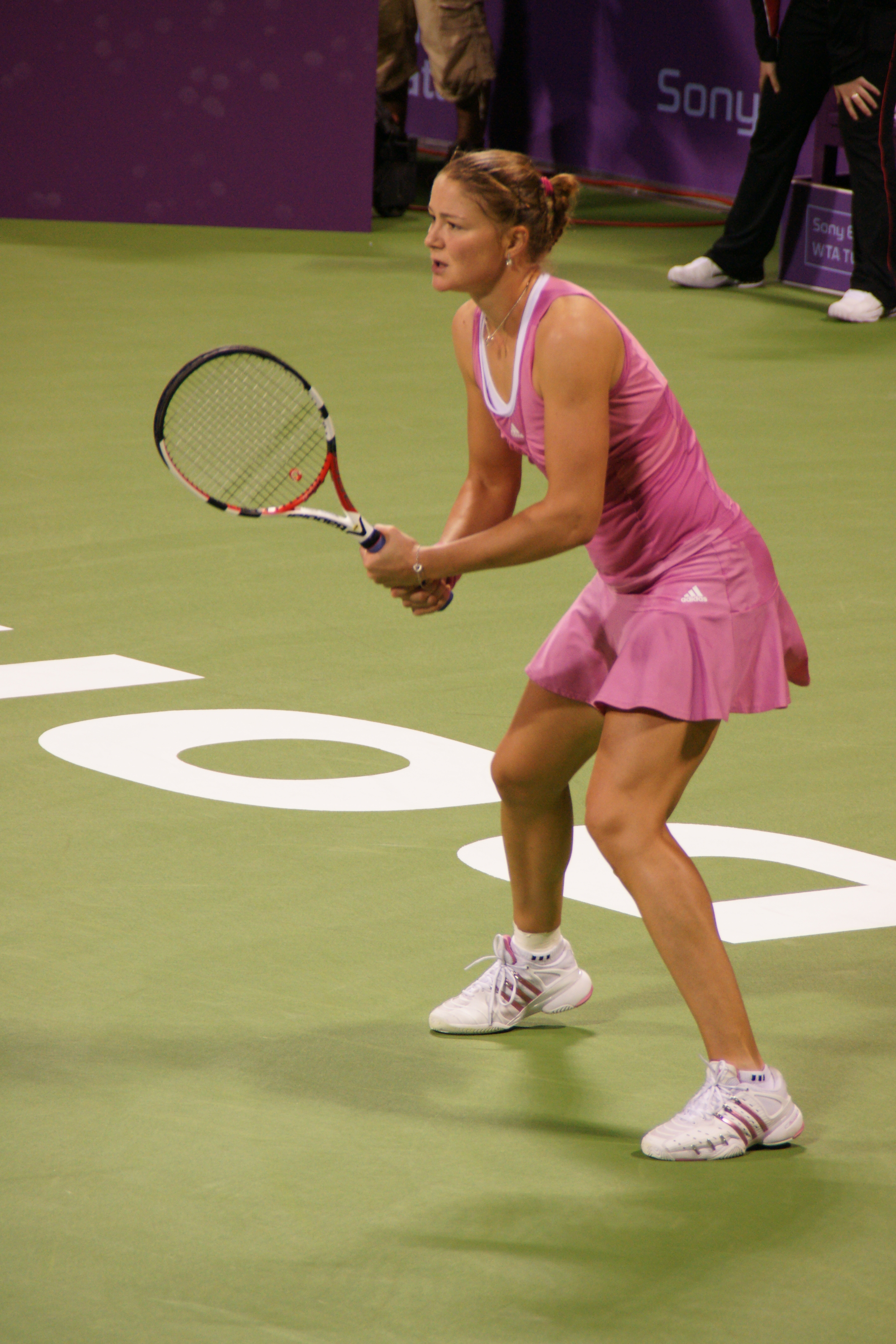 Dinara Safina at the 2008 WTA Tour Championships